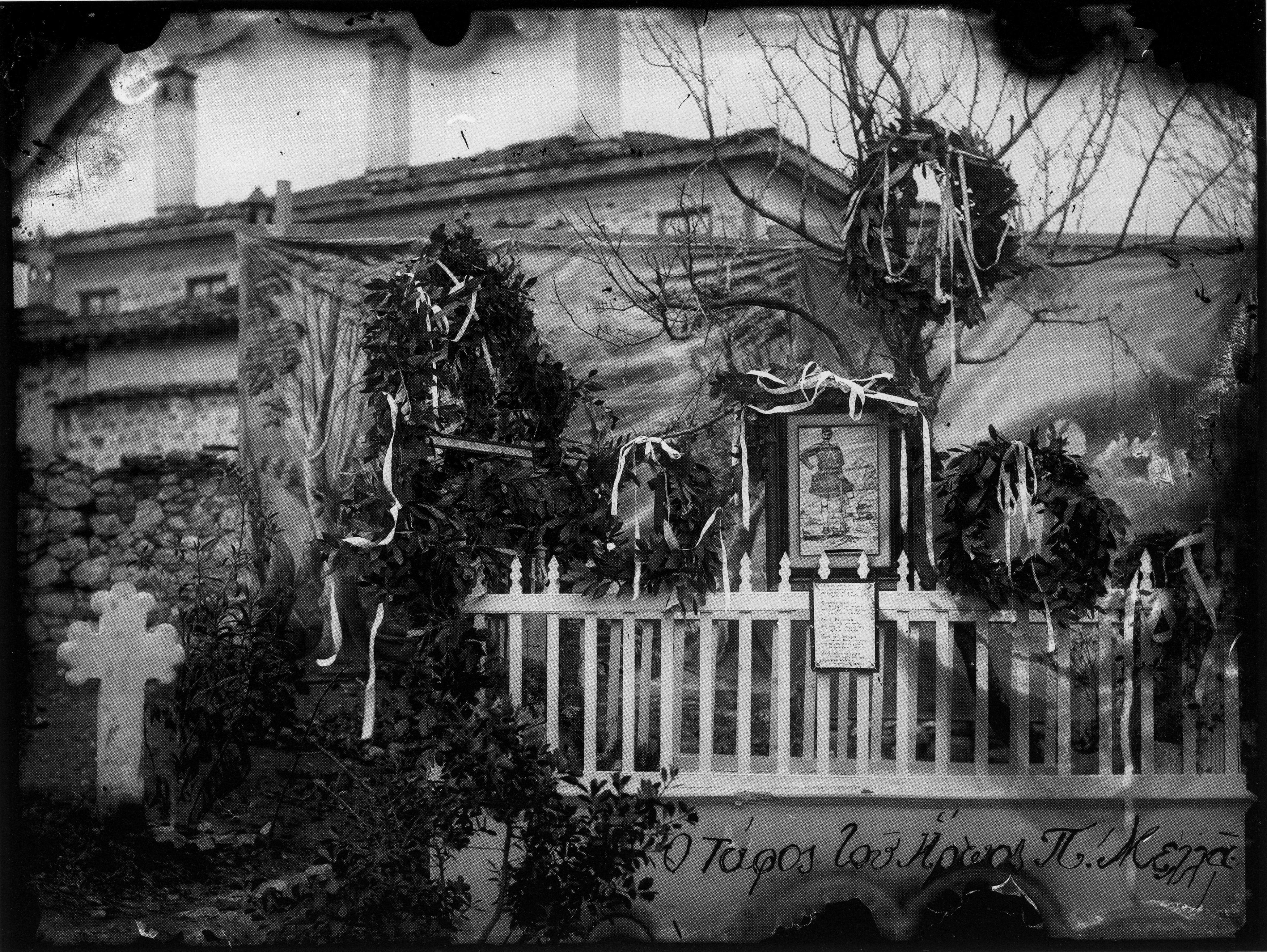 The grave of Pavlos Melas in Kastoria.